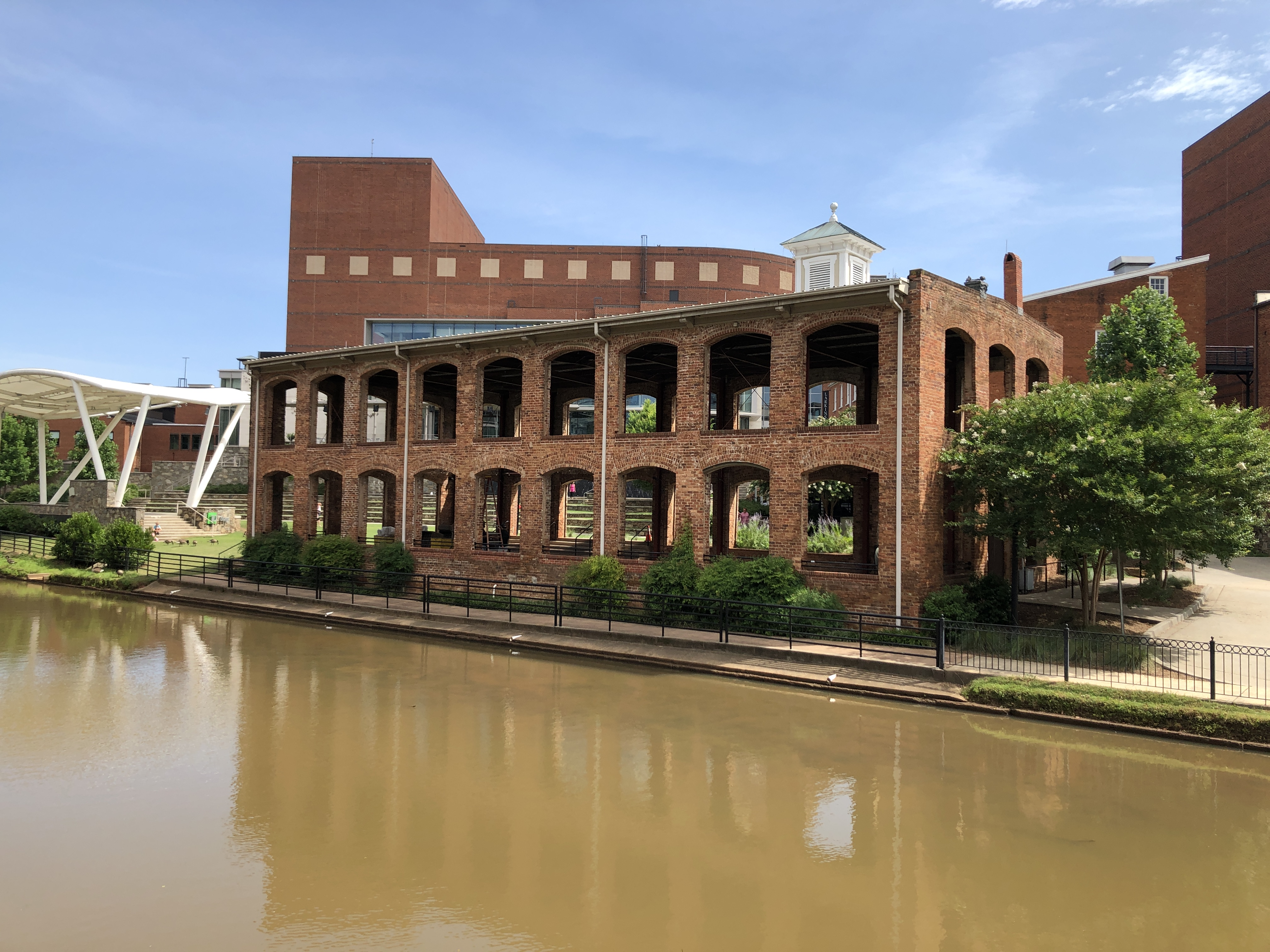 Wyche Pavilion (formerly a Duke's Mayonnaise factory), Greenville SC